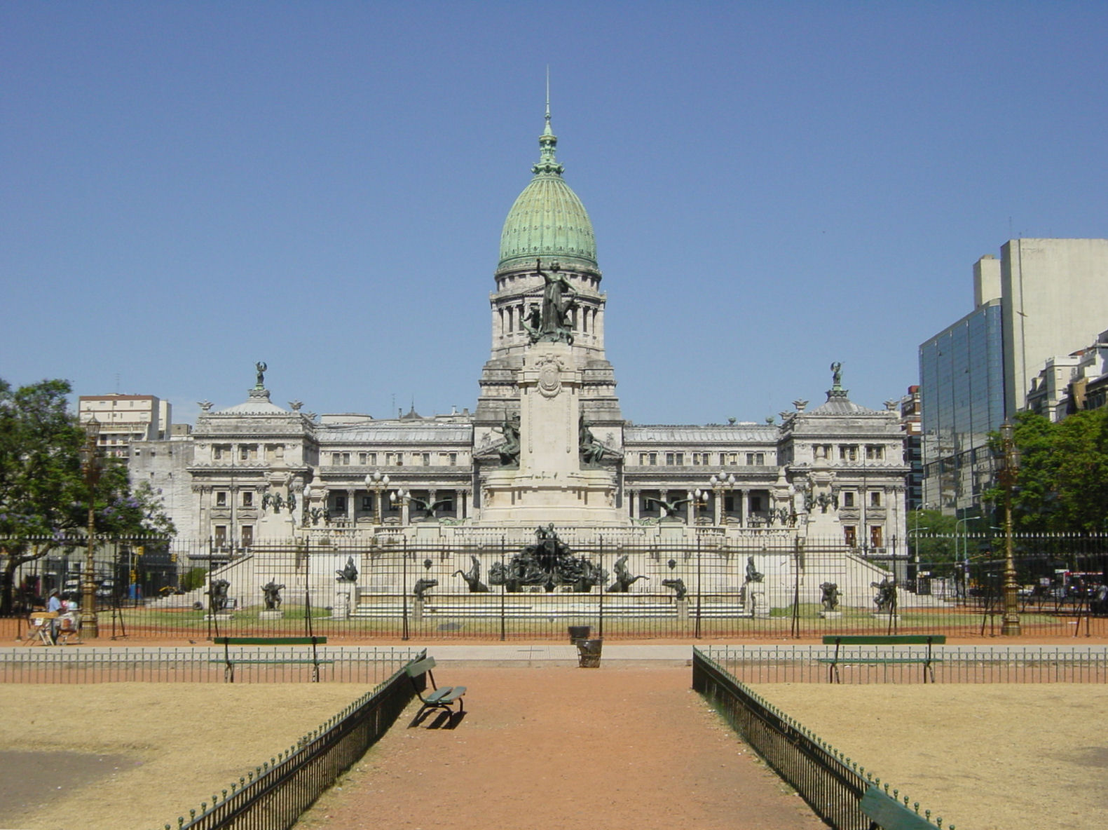 Palace of Congress, Buenos Aires